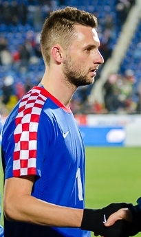 Marcelo Brozović